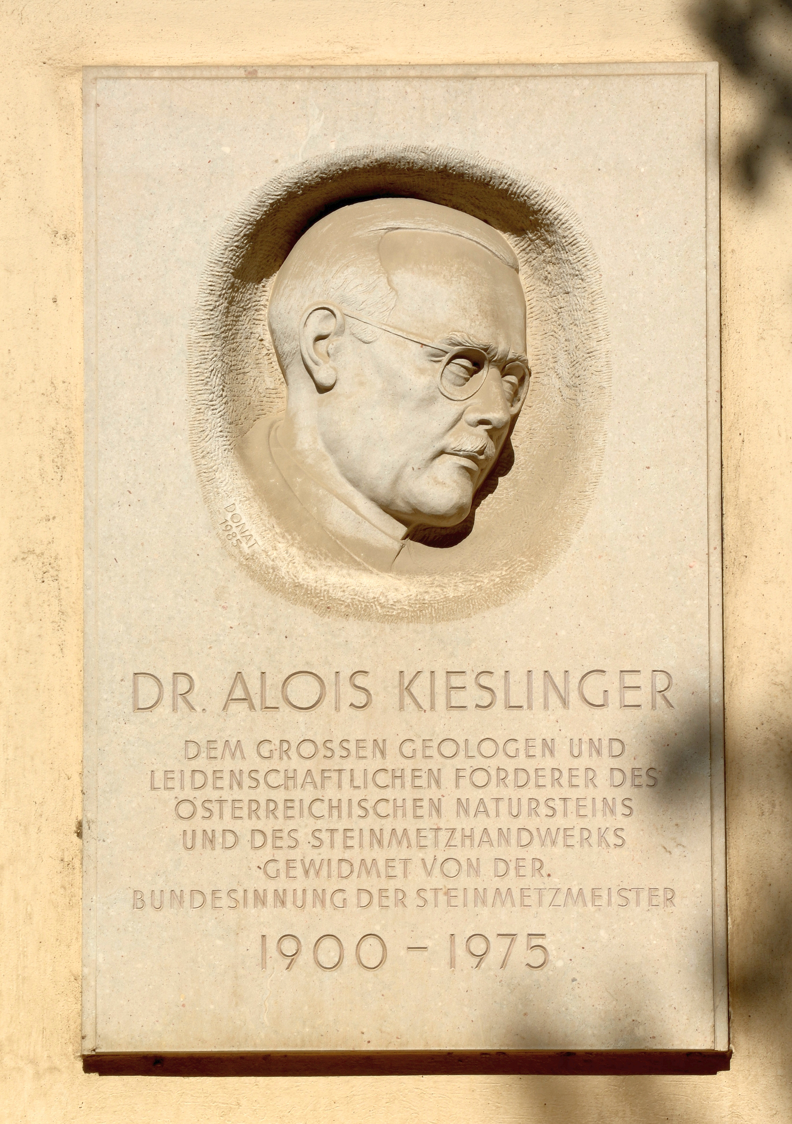 Commemorative plaque Alois Kieslinger in the court yard of the Vienna University of Technology